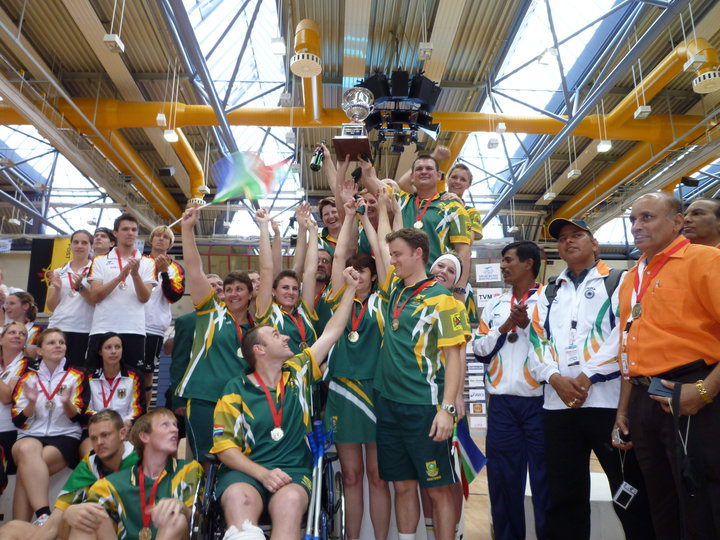 Team South Africa, winners of the 2010 World Team Championships in Ringtennis.